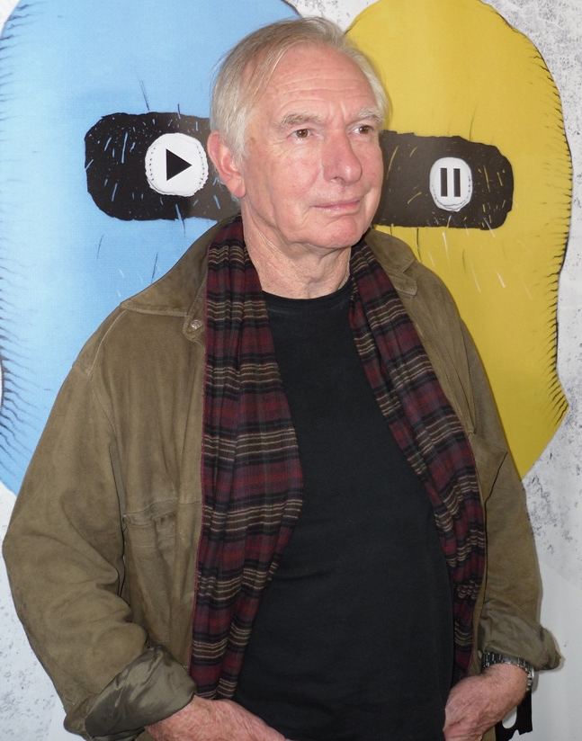 Peter Weir at an independent film festival in Kleparz, Krakow, Lesser Poland.